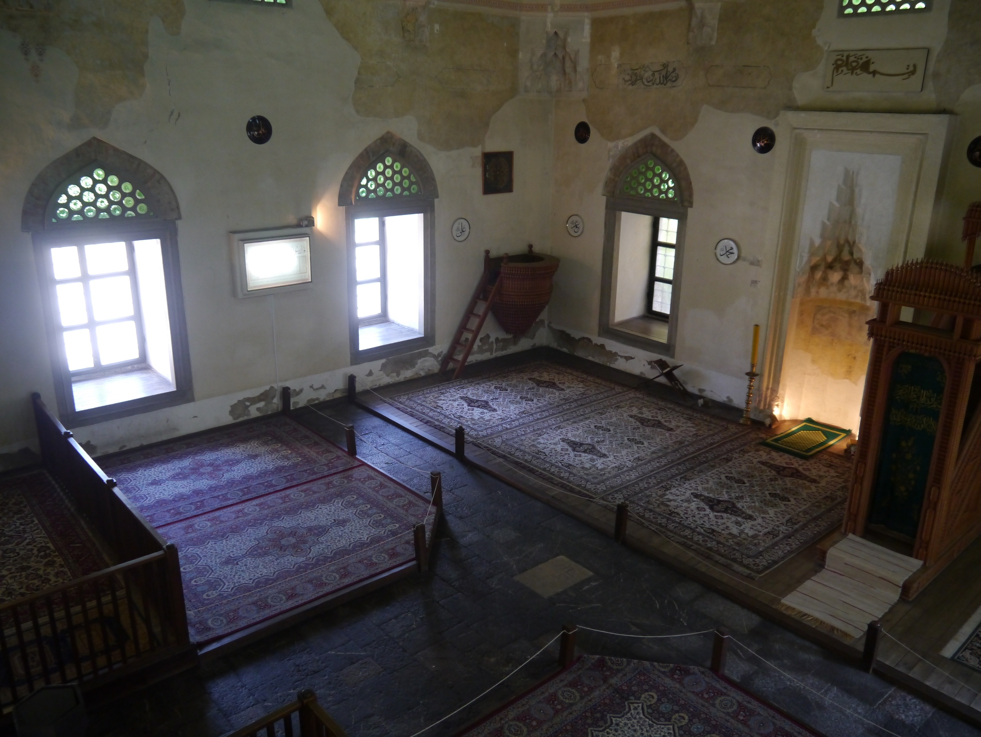 Prayer hall of the Ottoman Mosque, Pécs, Southern Hungary